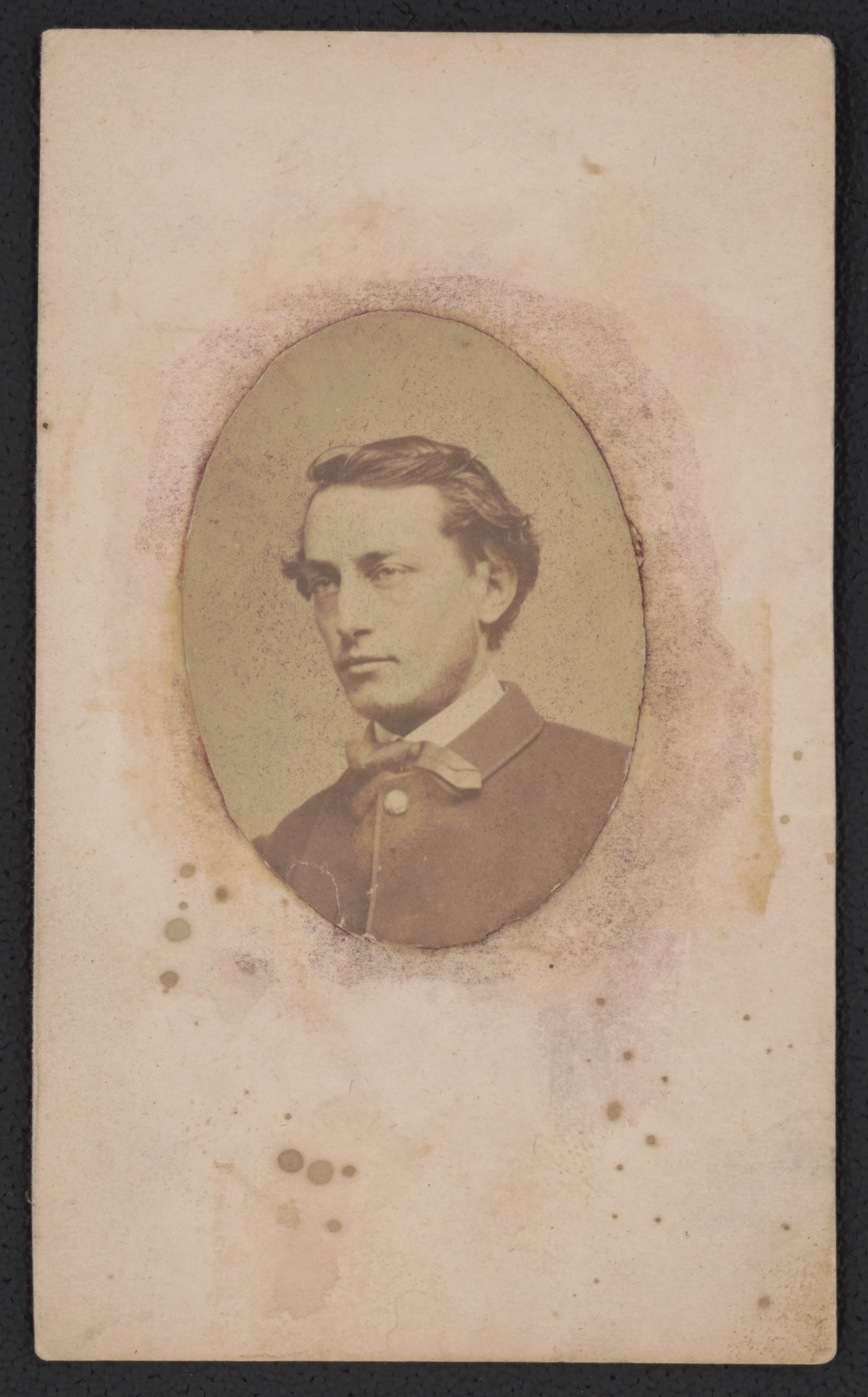 Title: Major Joseph M. Knap of Independent Battery E, Pennsylvania Light Artillery (Knap's Light Artillery); on the reverse, his deceased baby Abstract/medium: 1 photograph : albumen print on card mount ; mount 11 x 7 cm (carte de visite format)